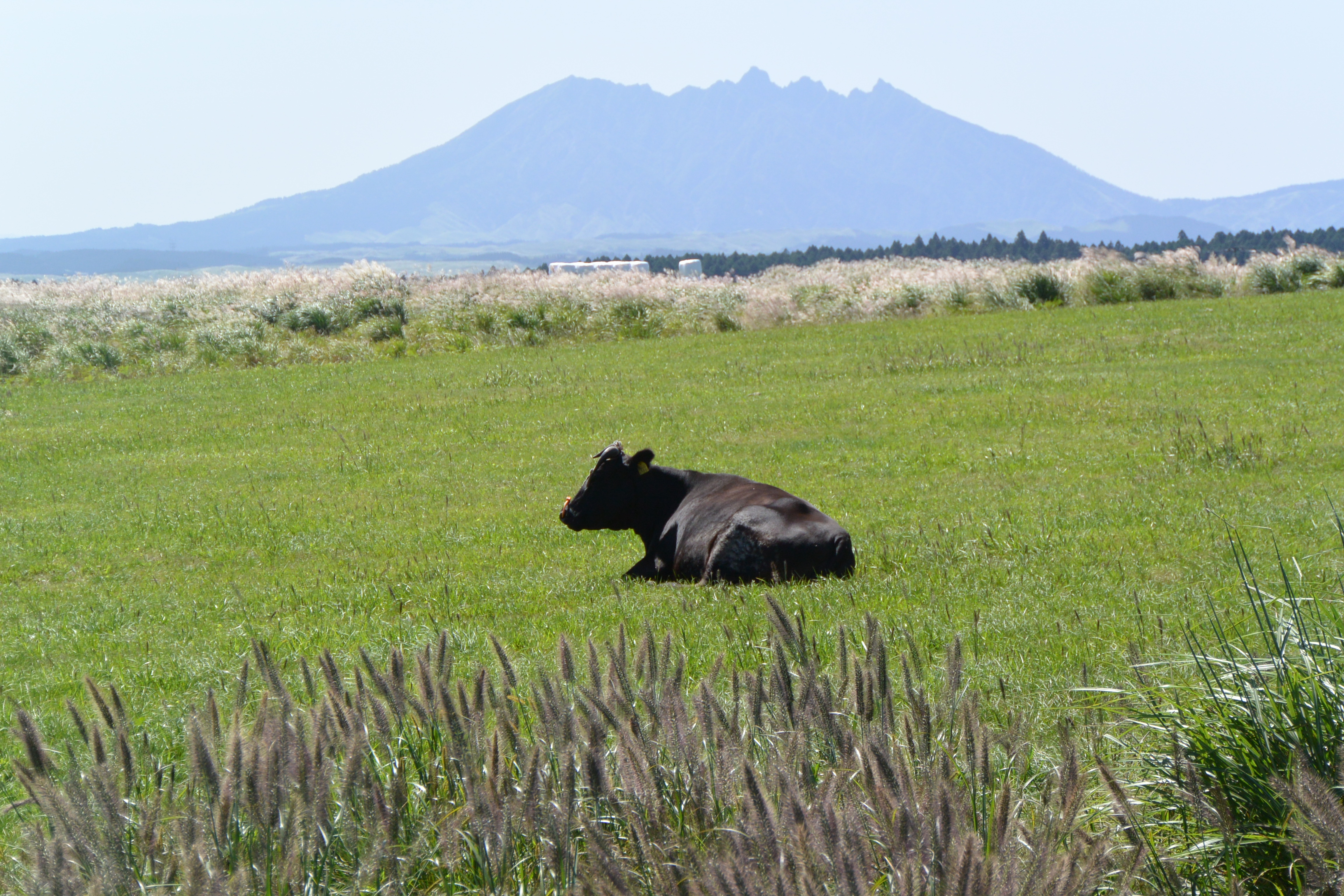 Black cow & Neko-peak of Mt. Aso